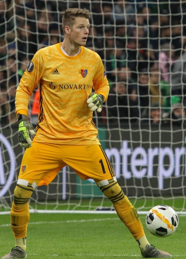 Jonas Omlin with FC Basel in an Europa League game against FC Krasnodar.